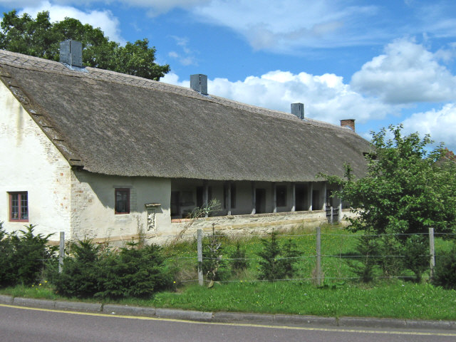 Old almshouses, Hamilton Road, Taunton